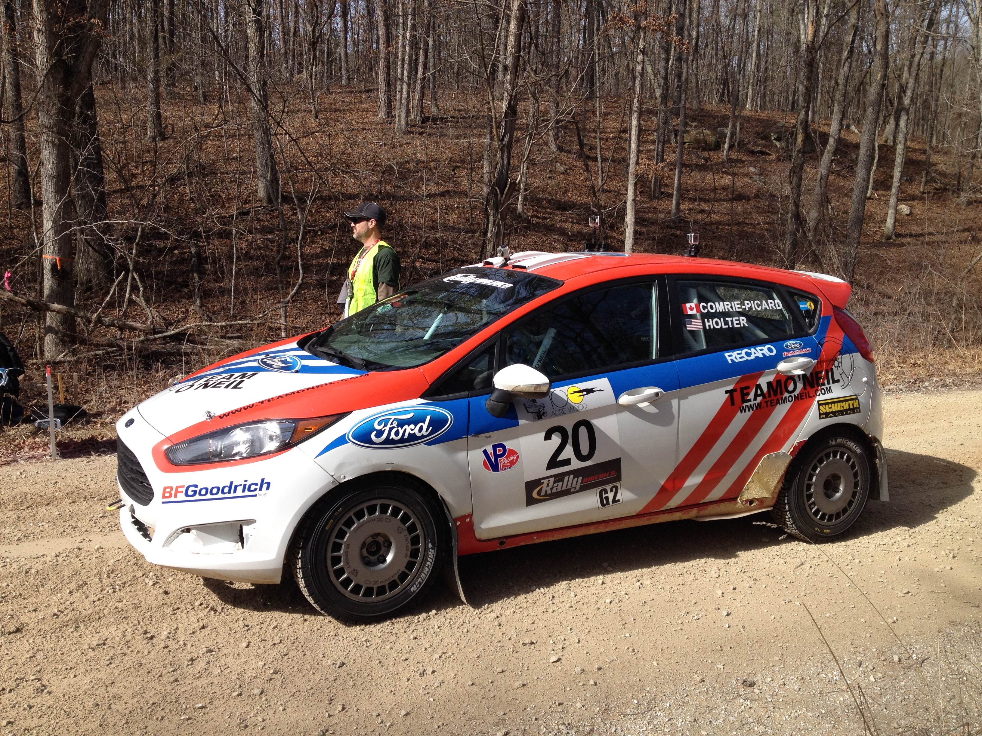 Andrew Comrie-Picard in rally car at the start line of a stage during the 2014 Rally in the 100 Acre Wood